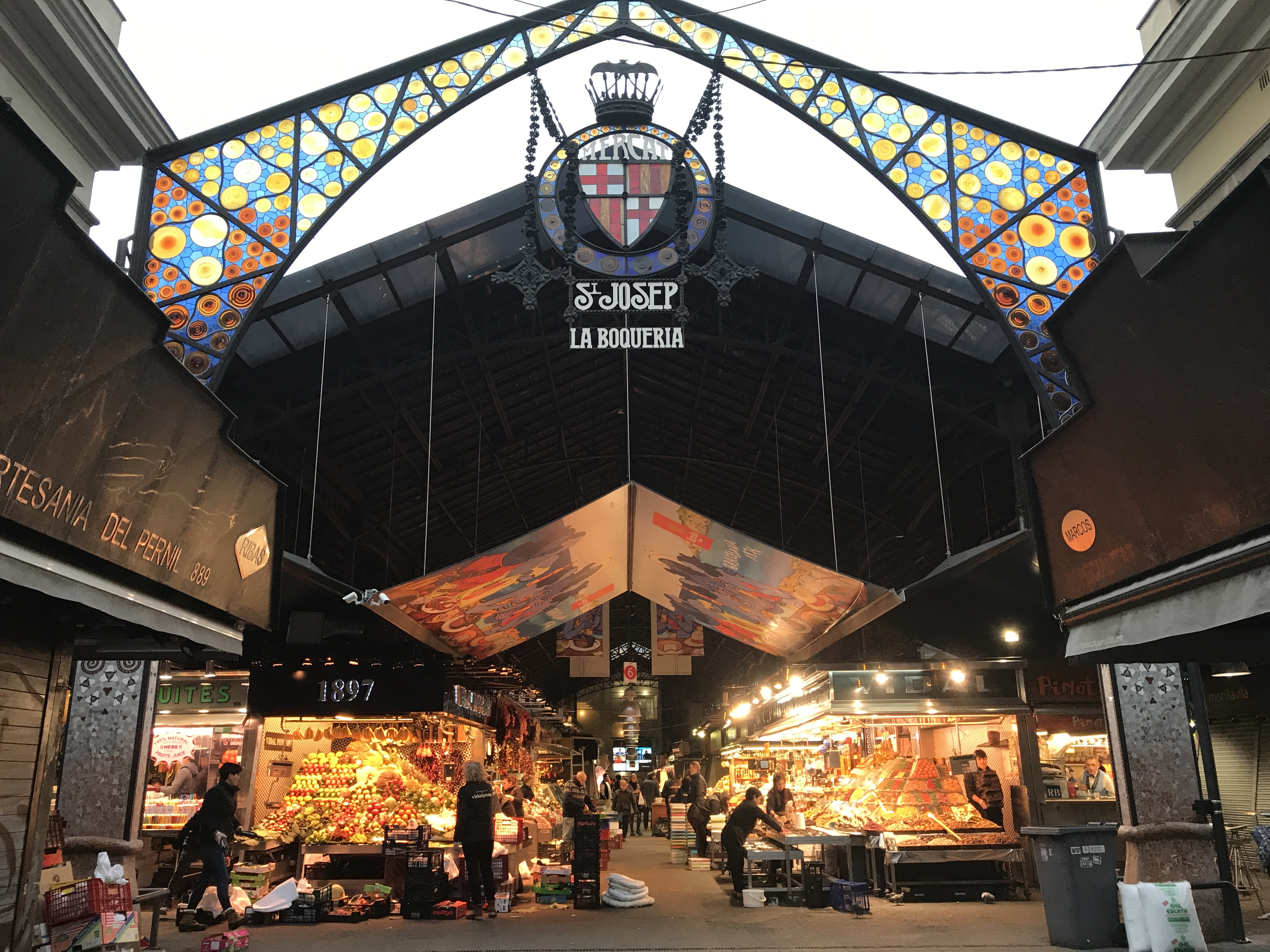 The front of Mercat de la Boqueria at the Ramblas in Barcelona Using this image is free, as long as you refer to Gracias!